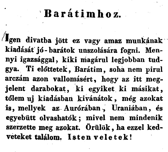 Preface to the Smaller Poems of Pázmándi Horvát Endre